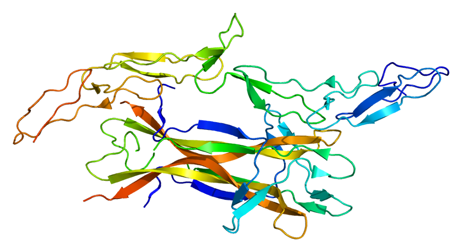 Structure of the NGFR protein. Based on PyMOL rendering of PDB 1sg1.